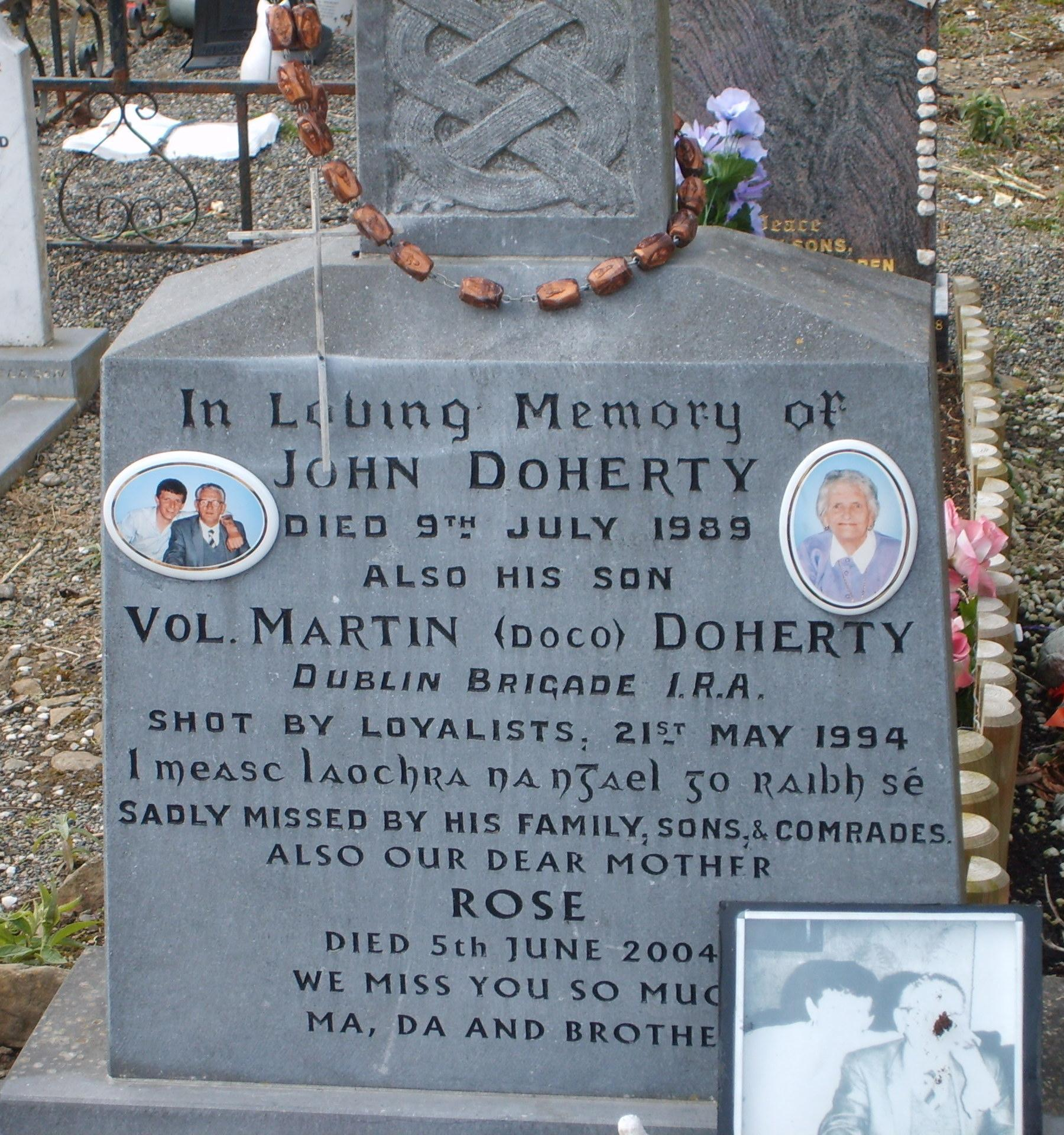 Gravestone of Volunteer Martin Doherty (Dublin Brigade, Óglaigh na hÉireann) in Glasnevin Cemetery, Dublin